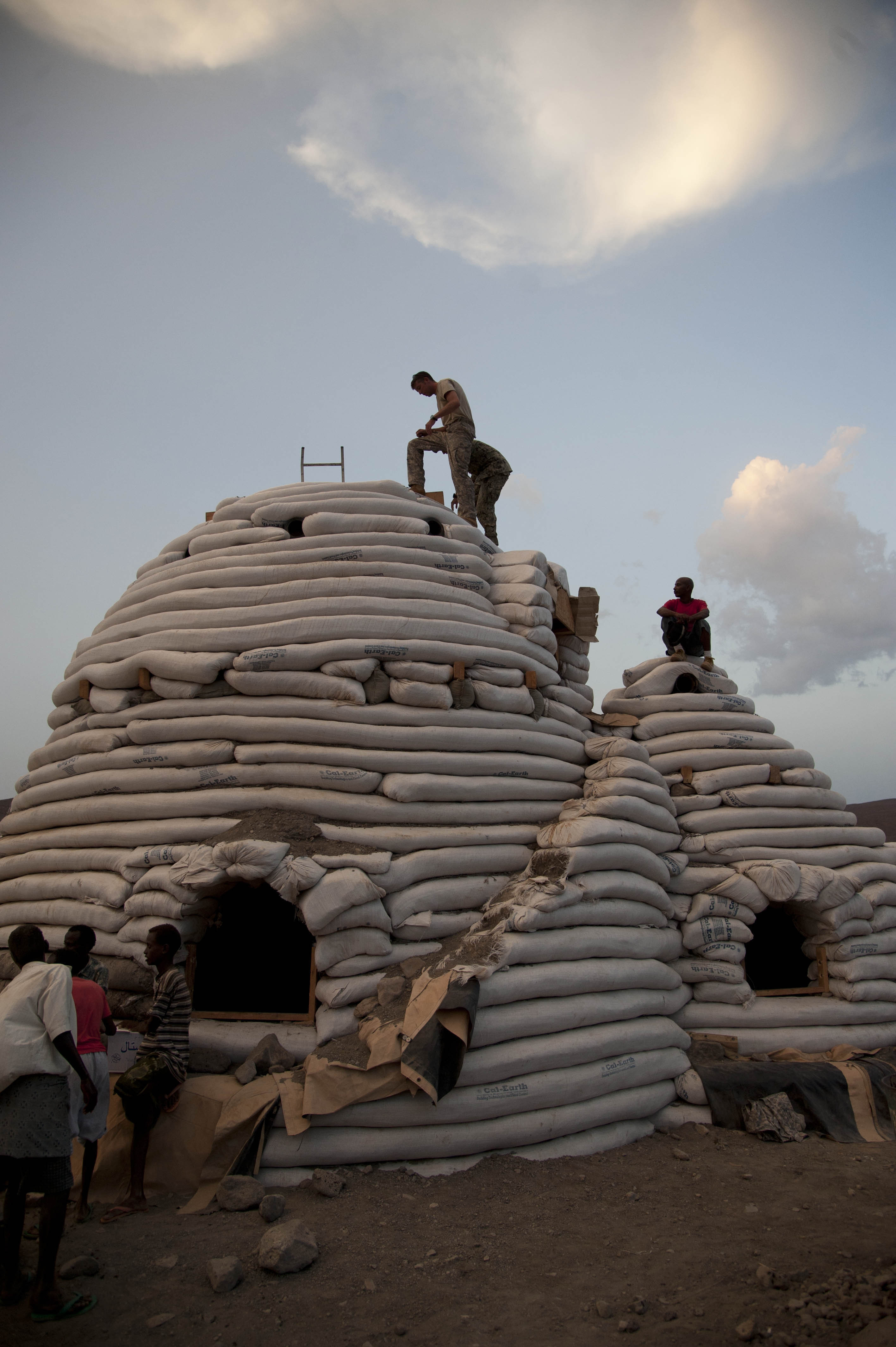 U.S. service members assigned to Combined Joint Task Force - Horn of Africa and local villagers work on the final stages of the eco-dome here May 22. The project is part of an ongoing effort between CJTF-HOA, villagers, non-government organizations and international organizations over the past several months to provide a community building for Karatbi San, a remote village in the Tadjourah region of Djibouti. Combined Joint Task Force - Horn of Africa Date Taken:05.22.2012 Read more